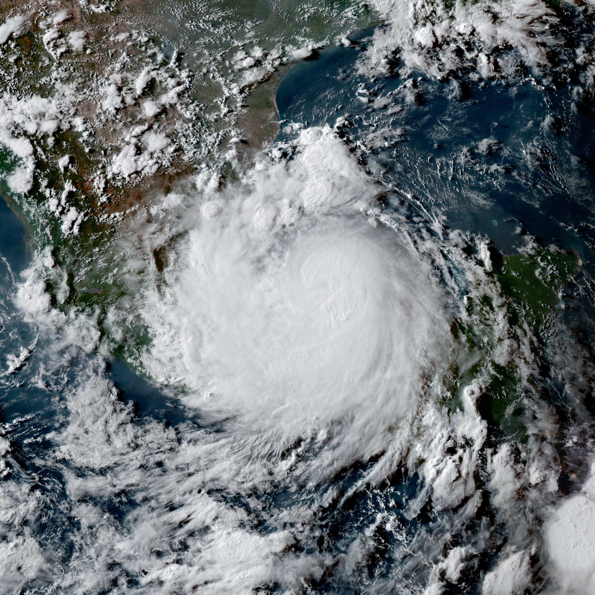 Hurricane Franklin at 23:25 UTC on August 9, 2017 in the Bay of Campeche.